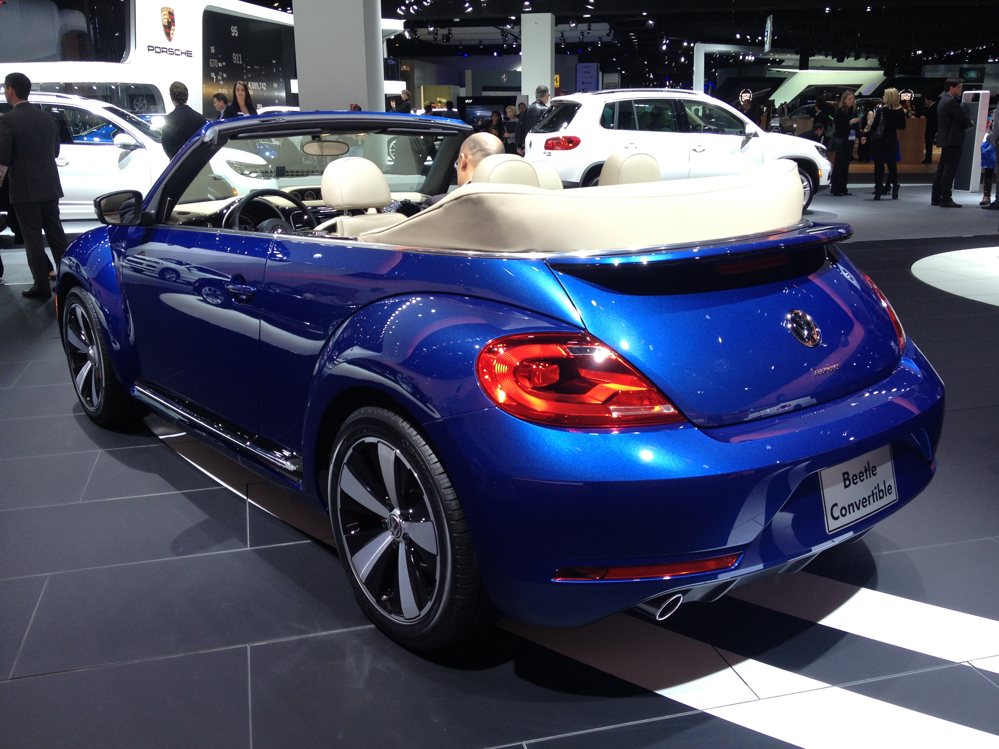 2013 North American International Auto Show Detroit, Michigan